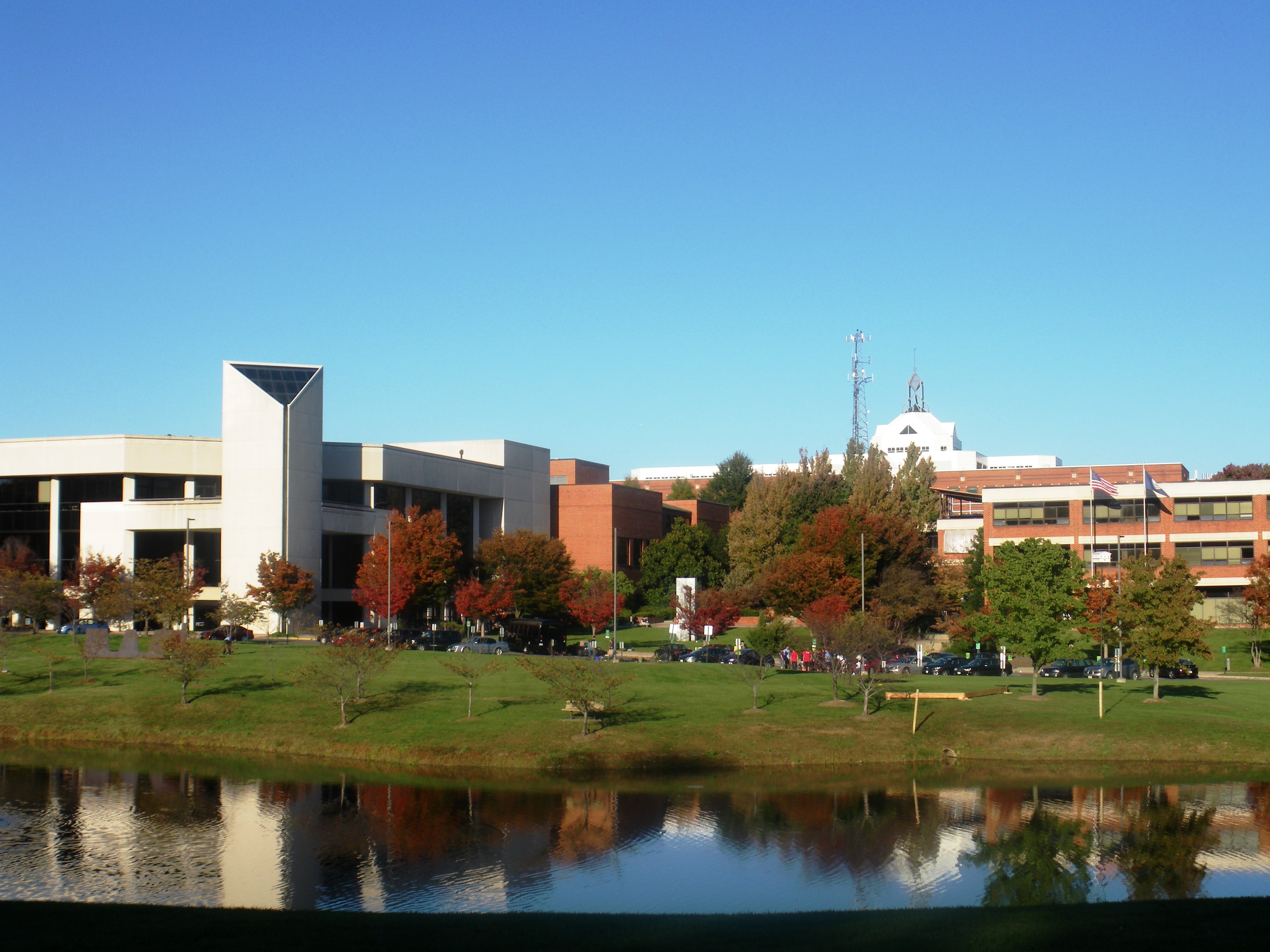 George Mason University in Fall 2012